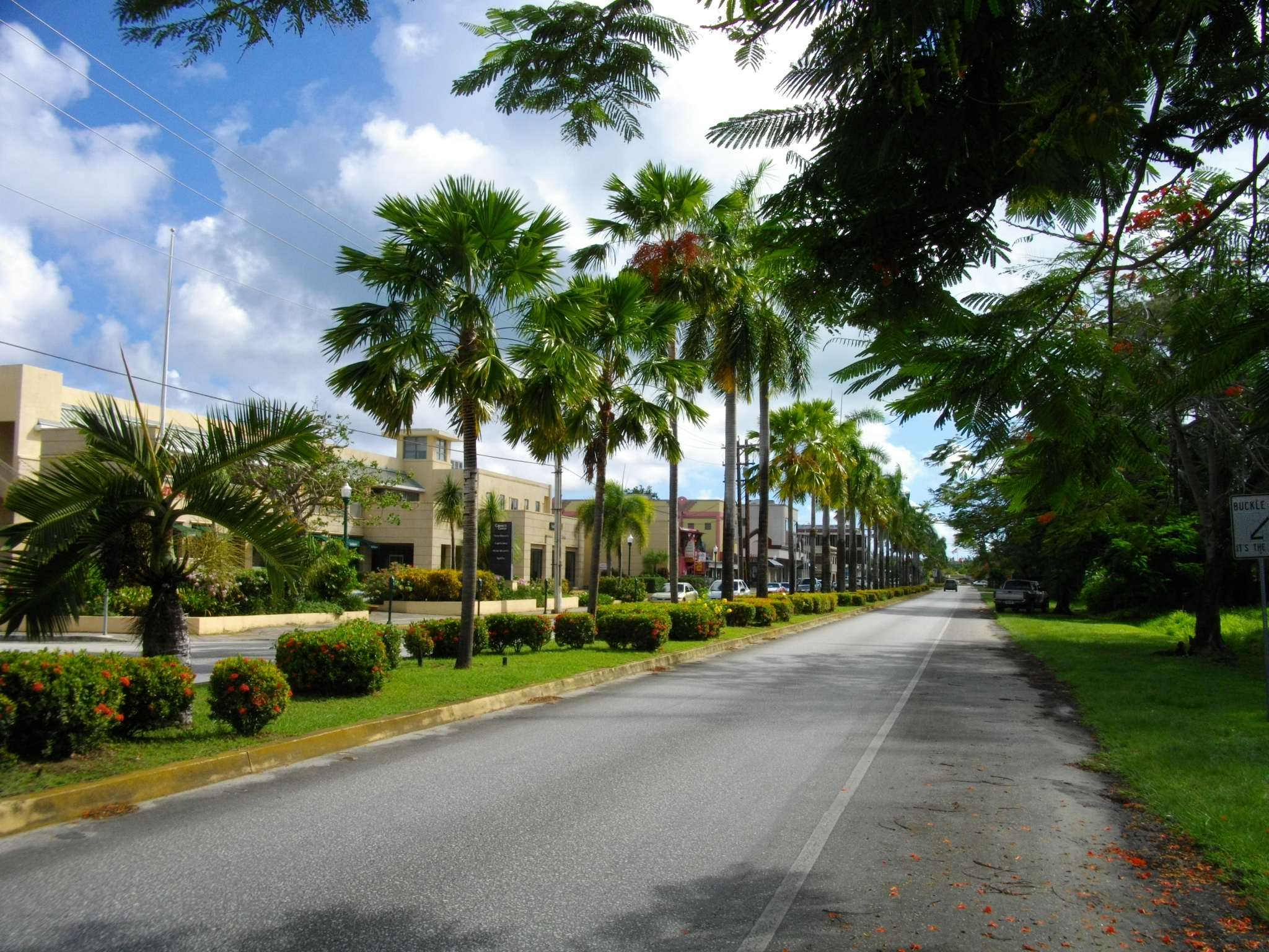 Beach Road at Garapan